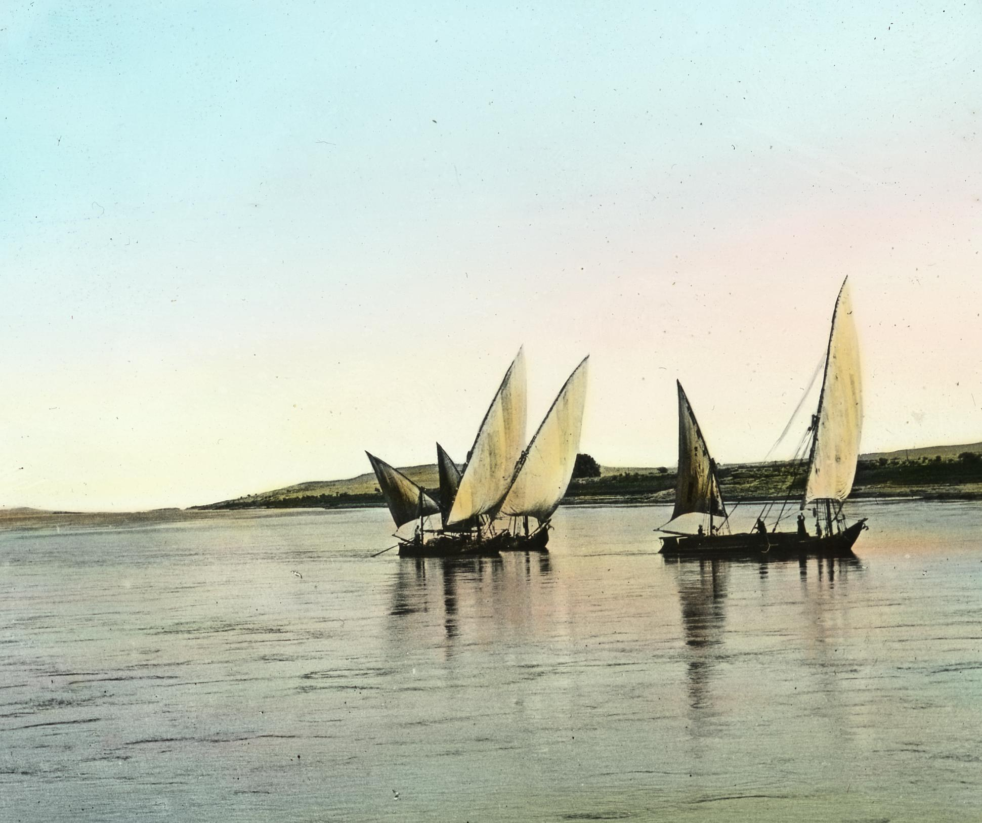 The Nile from Abu Simbel, Egypt.